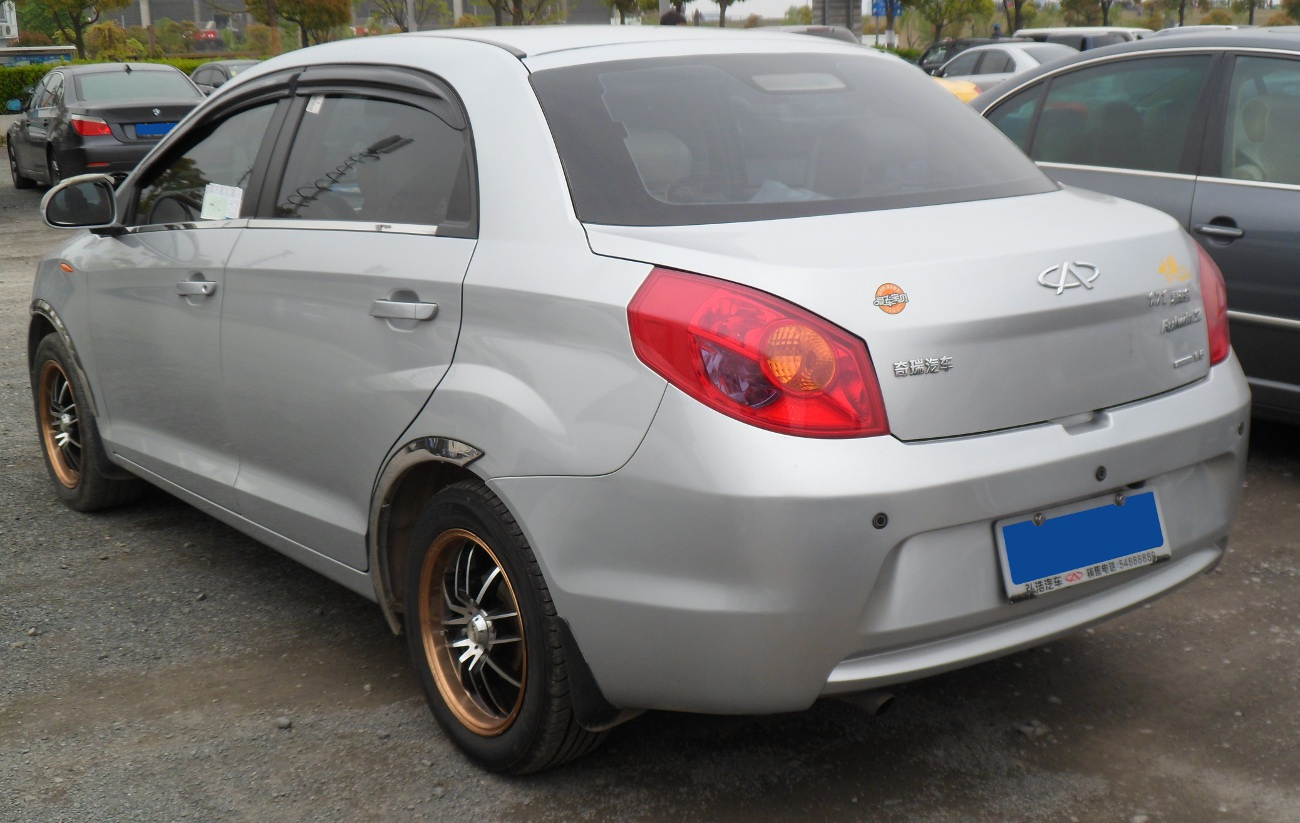 Chery Fulwin 2 sedan photographed in Anting, Shanghai municipality, China.